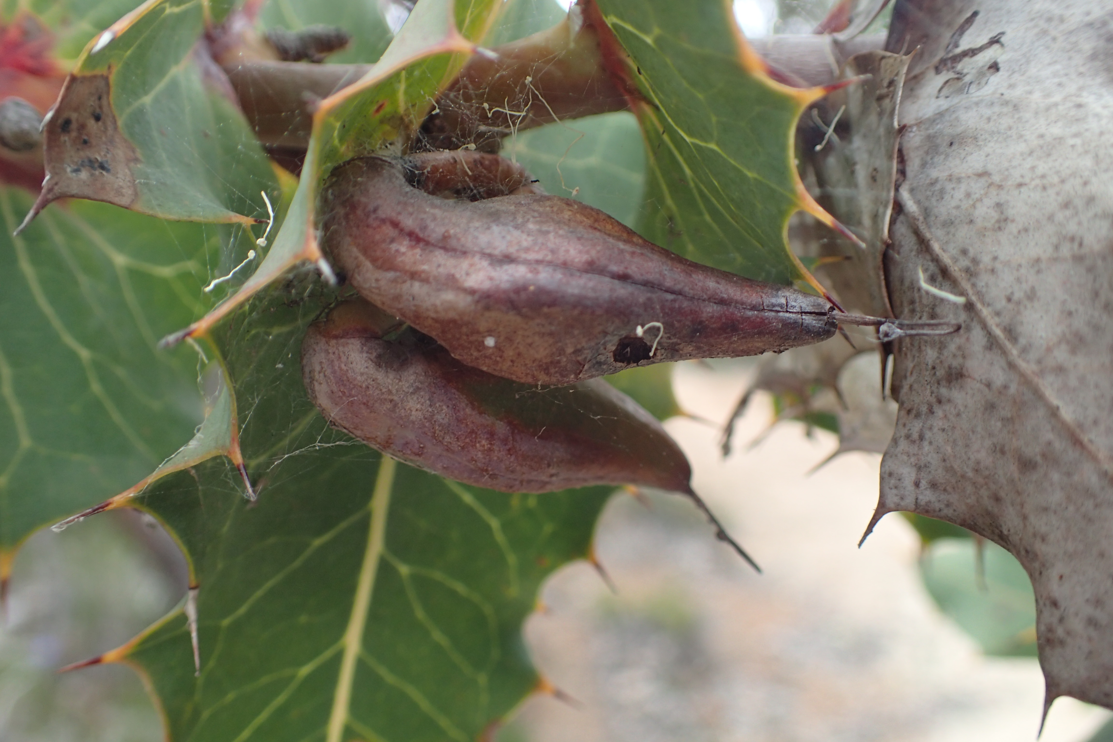 Fruit of Hakea amplexicaulis on plant in the Meelup Regional Park, near Dunsborough